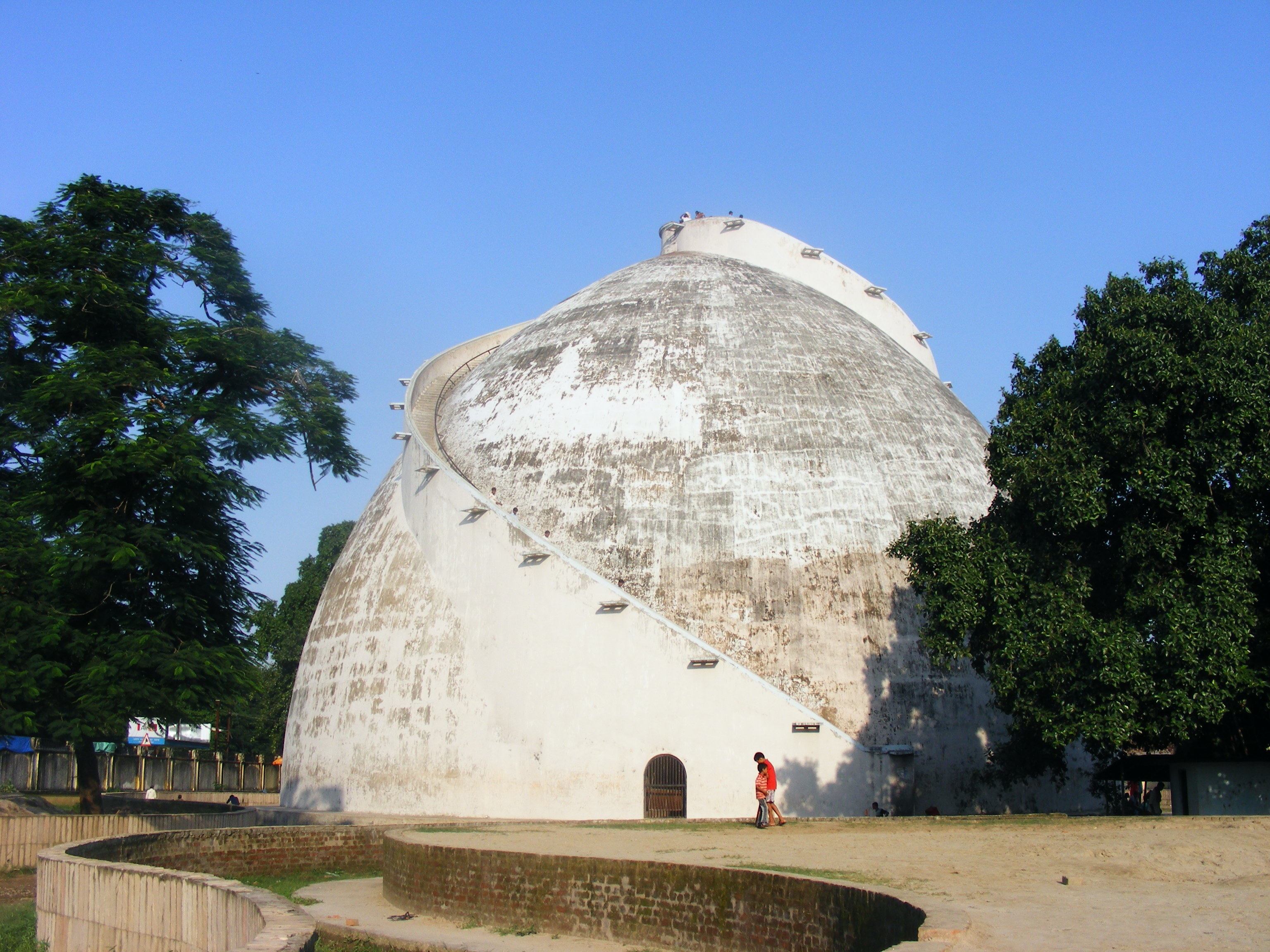 Patna - Golghar